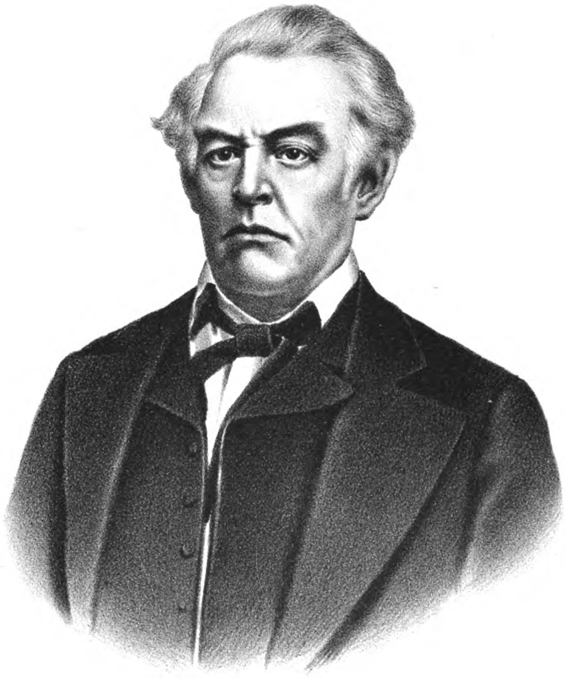 James M. Gaylord, member of the United States House of Representatives from McConnelsville, Ohio.